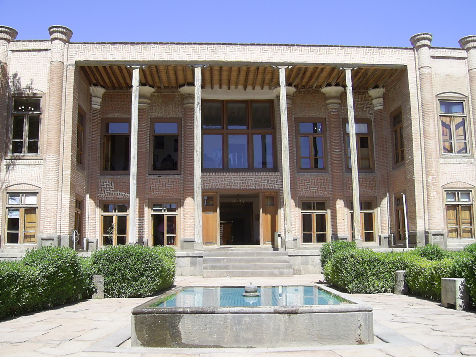 Reza zadeh home